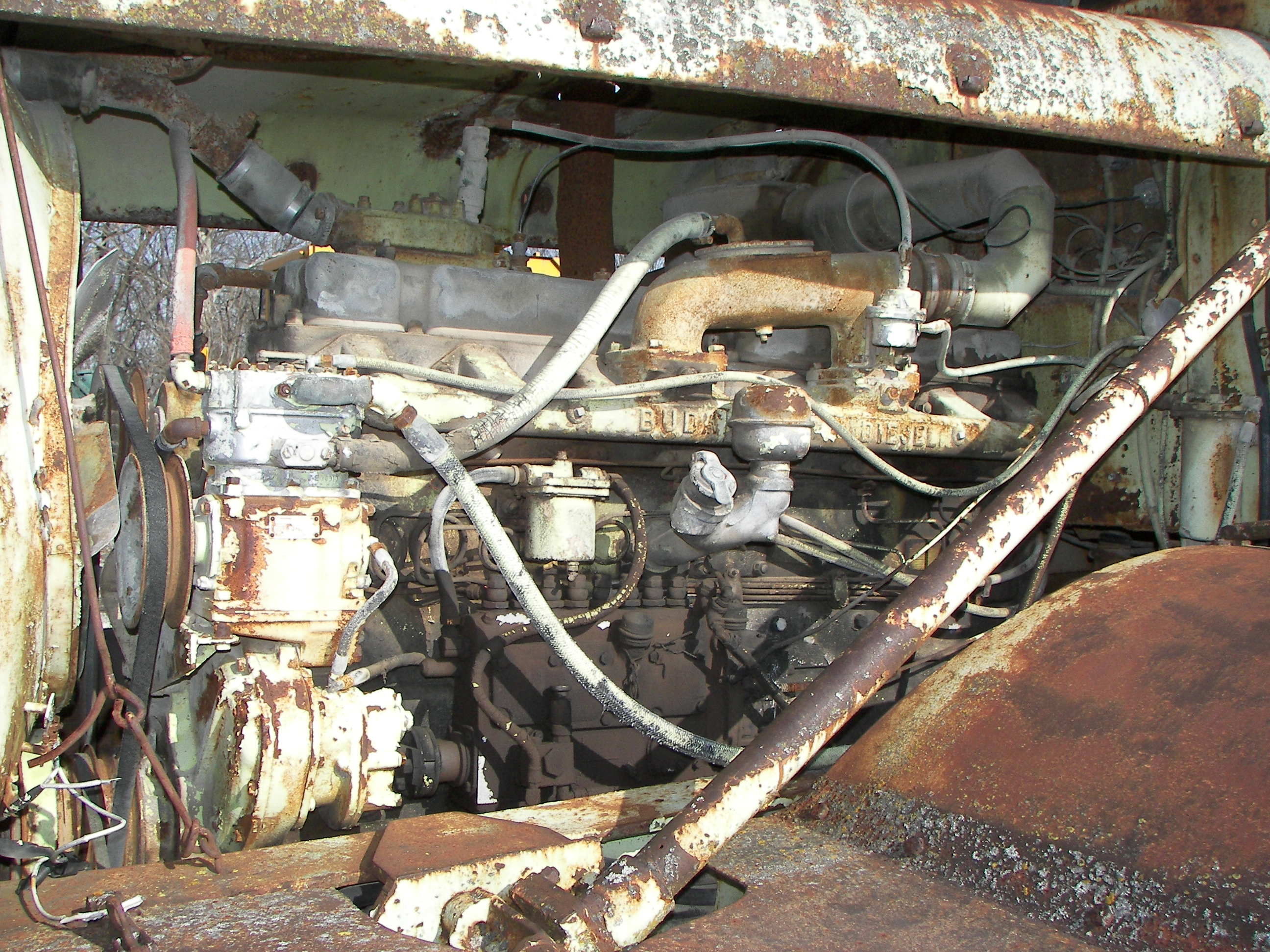 Driver's side view of Buda 8-cylinder Diesel engine in old Euclid dump truck